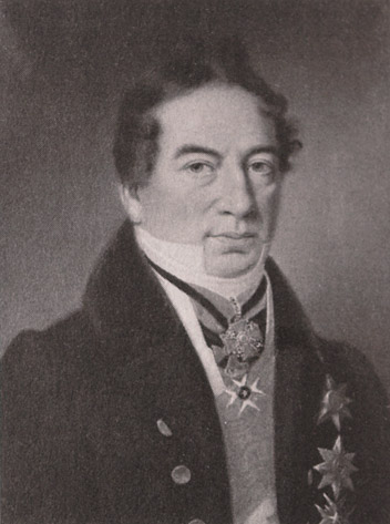 Robert Henrik Rehbinder (1777–1841), Finnish count and civil servant.